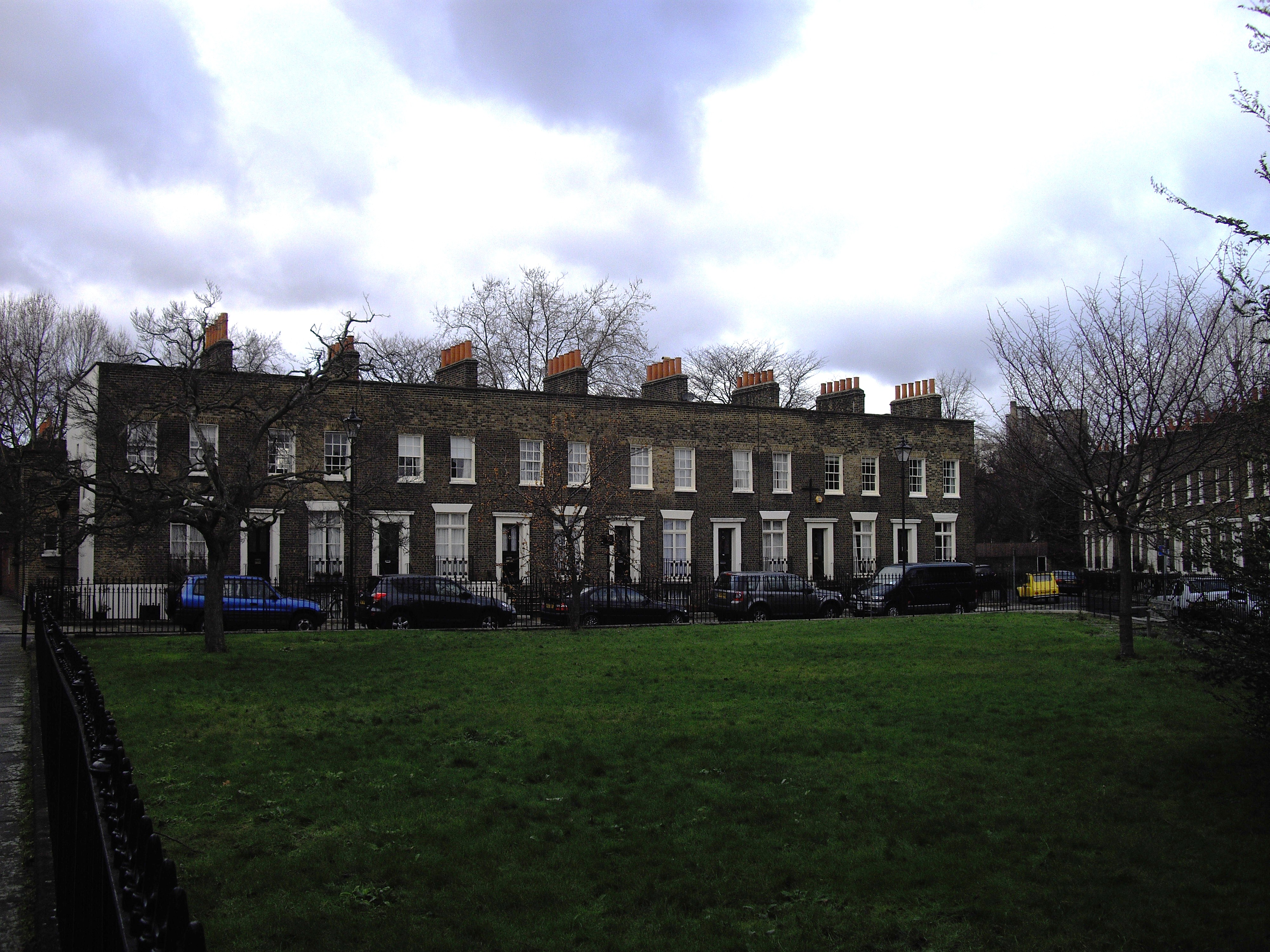 Walcot Square Lambeth Walcot Square was laid out and the houses erected in 1837–39, the houses are terrace type in yellow stock brick with stucco surrounds to the entrances and a plain coping above the parapets.